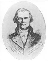 Moses Robinson, former U.S. senator from Vermont